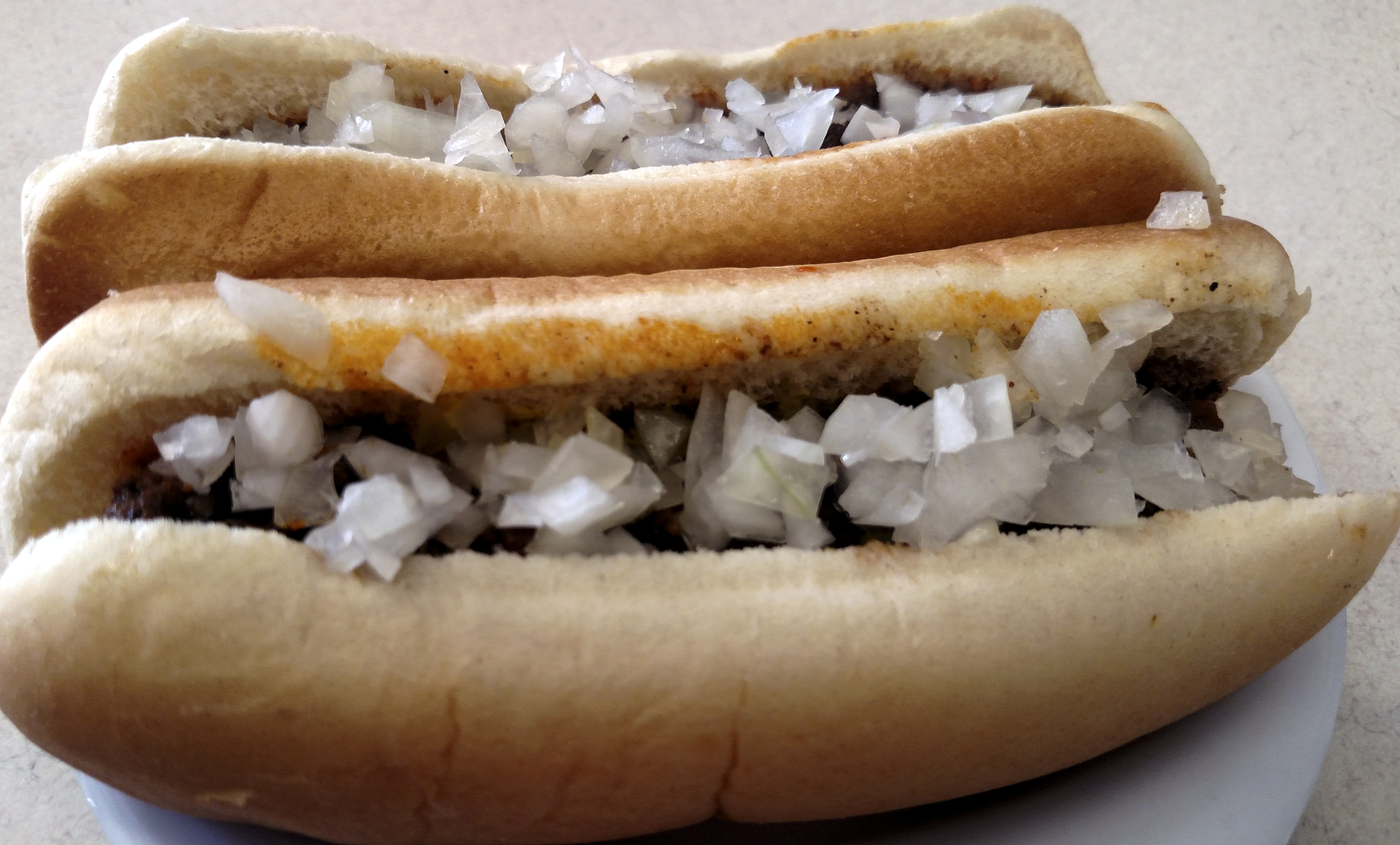 Coney Island hot dogs at Ft, Wayne Famous Coney Island, founded in 1914